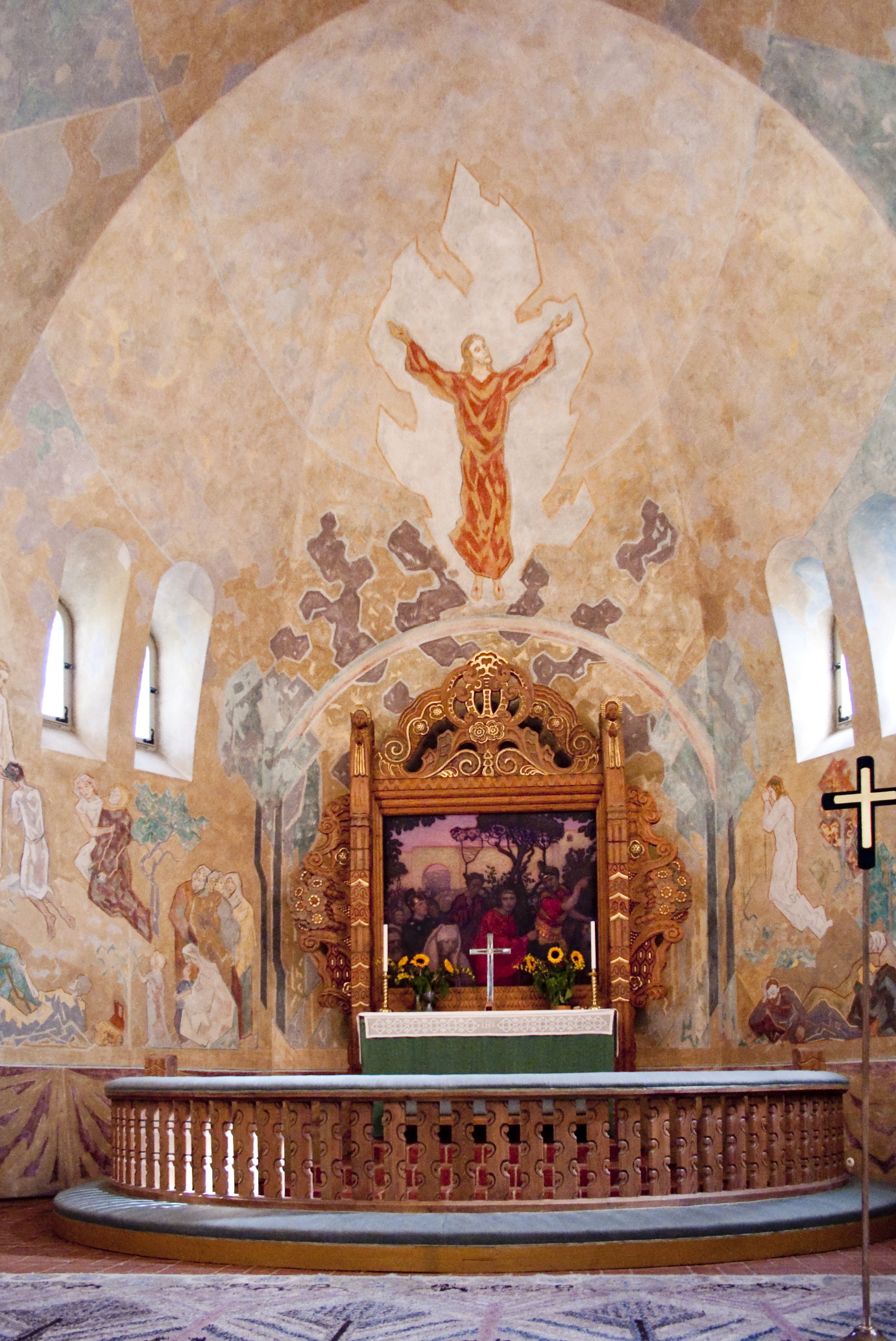 Trefaldighetskyrkan, Arvika. Diocese of Karlstad. Altar.